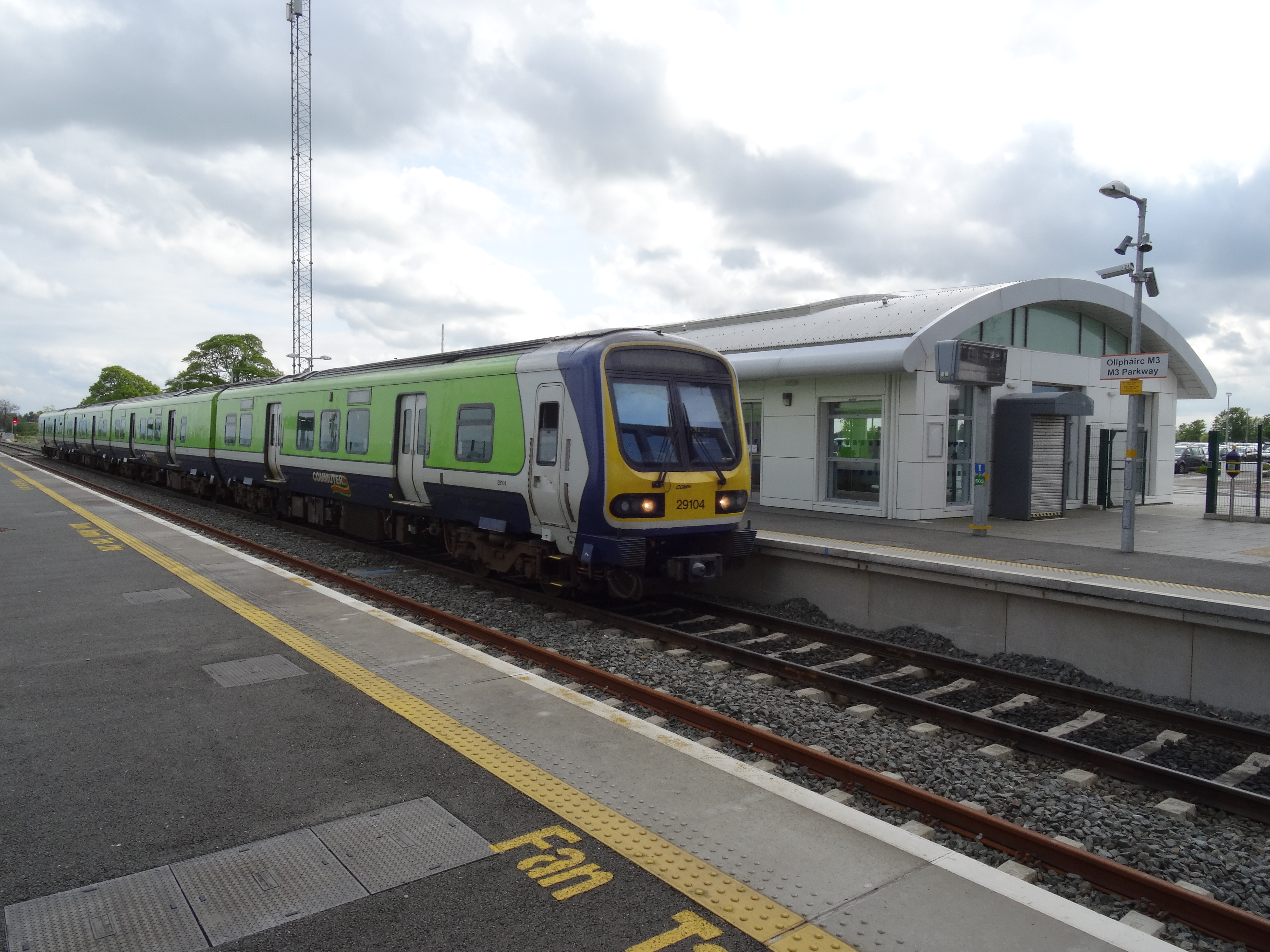 M3 Parkway railway station, Republic of Ireland